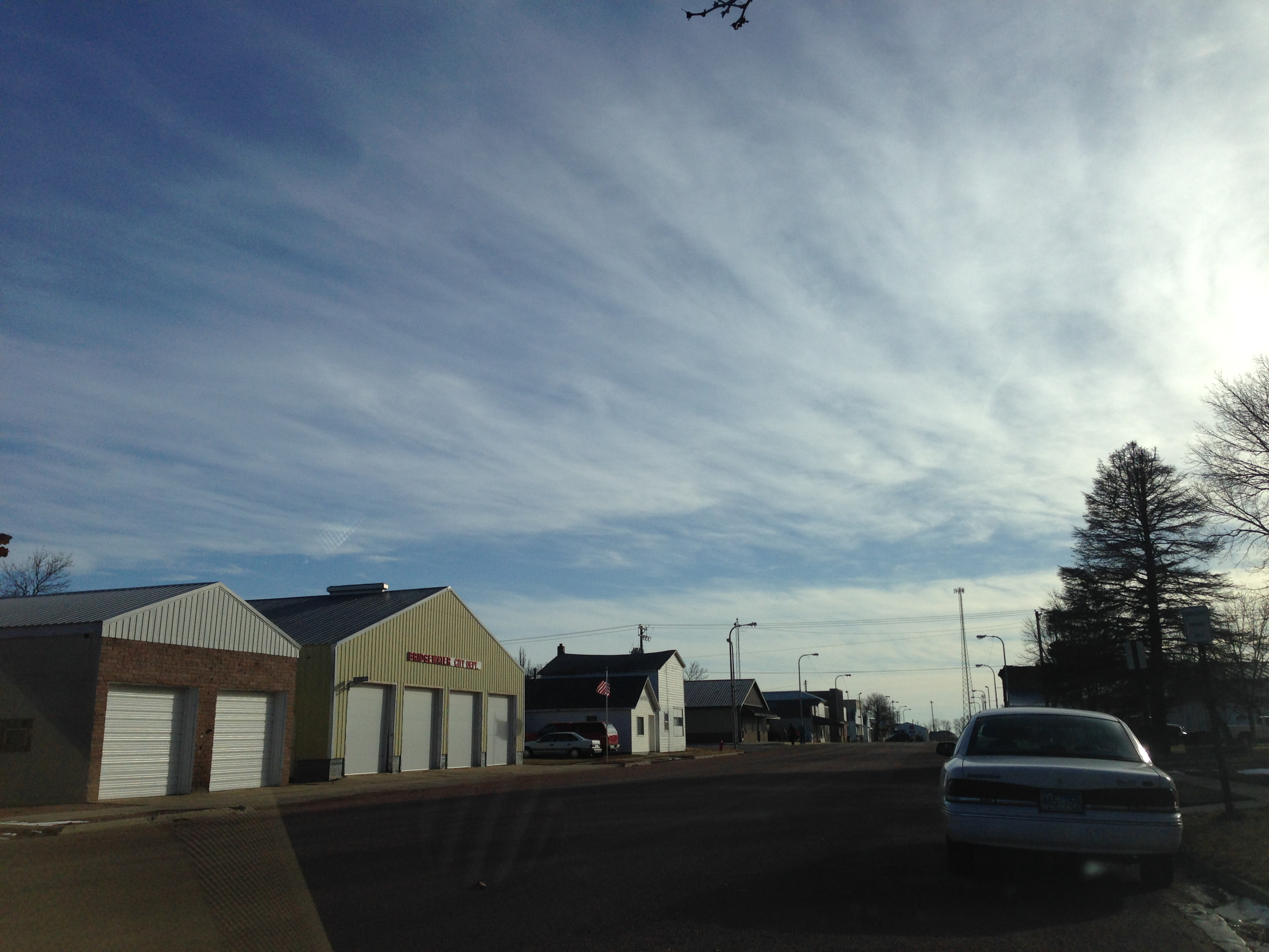 Sky above Main Street in Bridgewater, SD